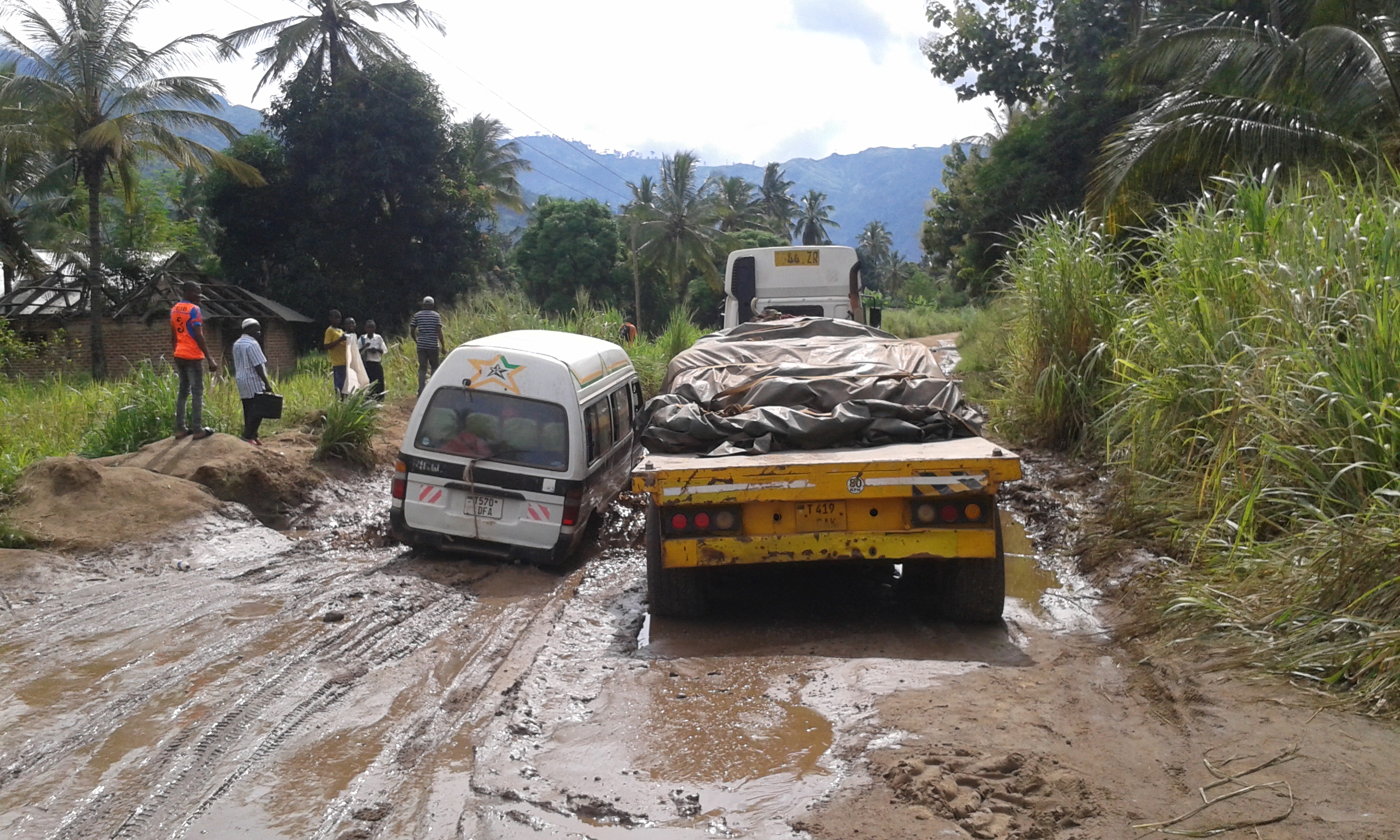 Mud flood on the village road near Morogoro, Tanzania This is an image with the theme "Africa on the Move or Transport" from: Tanzania